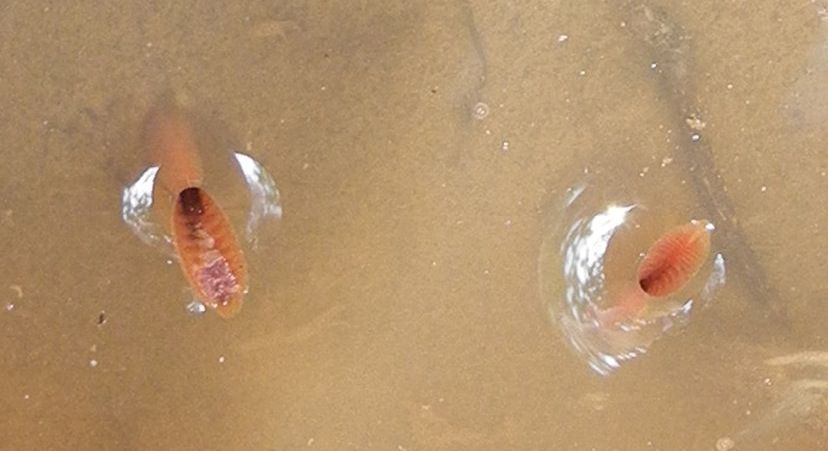 Tail tip of Glyphidrilus chaophraya paratype CUMZ 3284.